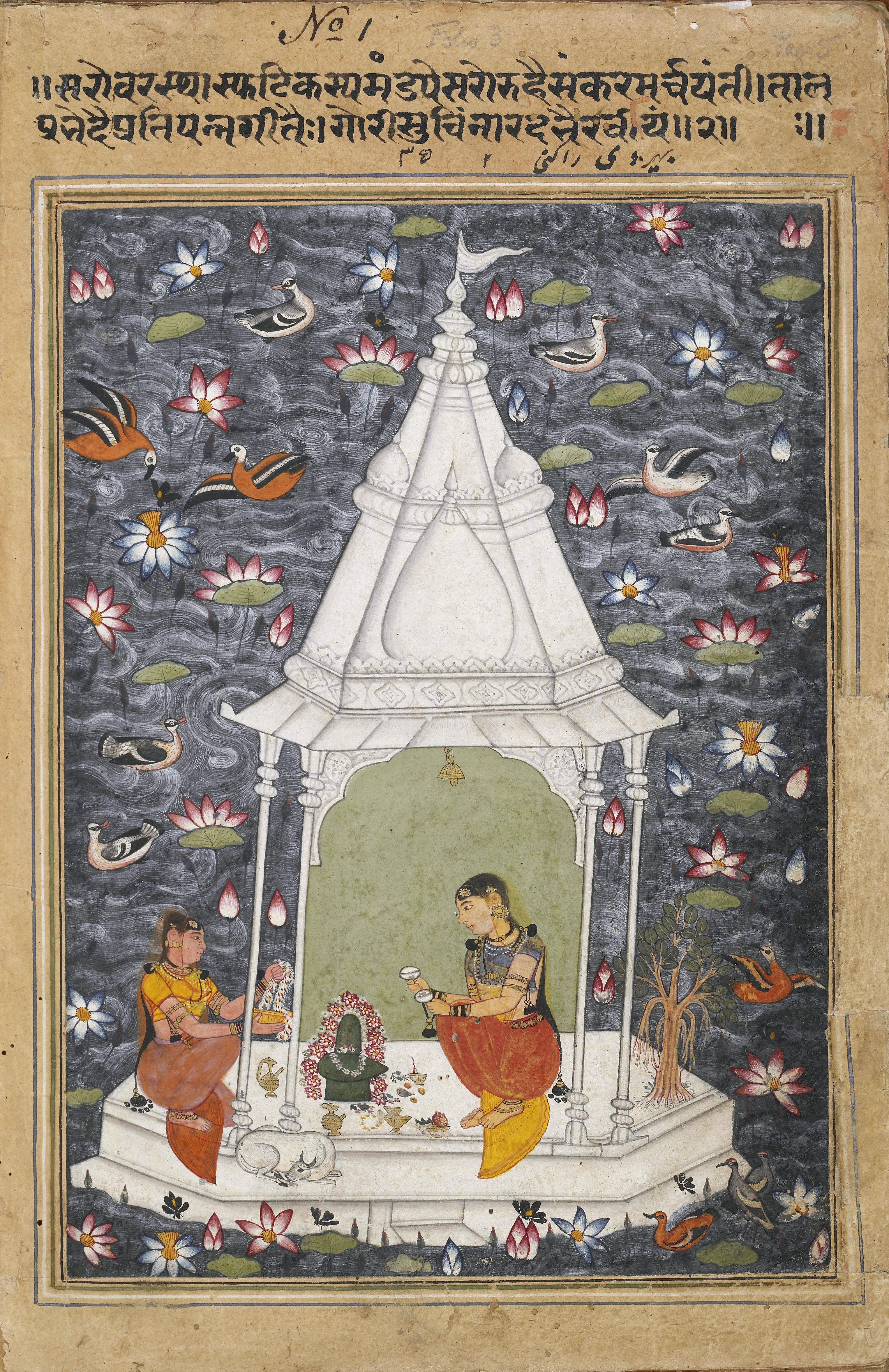 Bhairavi Ragini, Manley Ragamala, an album painting. Amber, Rajasthan, India. (cropped version) Two women worship Shiva in a lotus-filled lake. Sub-Imperial Mughal style